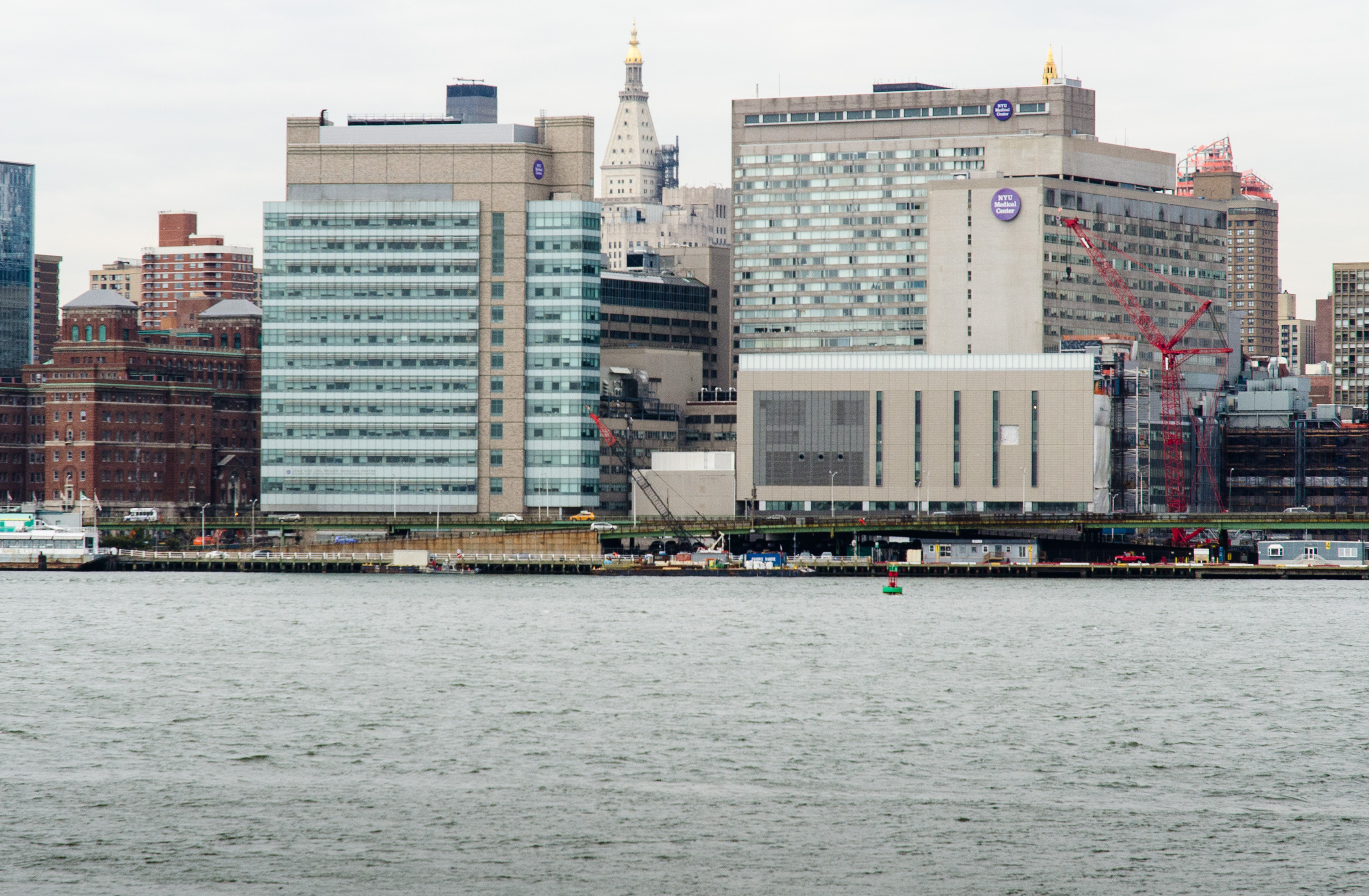 New York University (NYU) Medical Center occupies the north end of Hospital Row on First Avenue, separated from the East River only by the FDR Drive with the Bellevue Psychiatric Hospital on the left. During the storm surge from Hurricane Sandy the hospital suffered extreme damage to its infrastructure. Federal agencies are coordinating to help the hospital become more resilient to future storms.